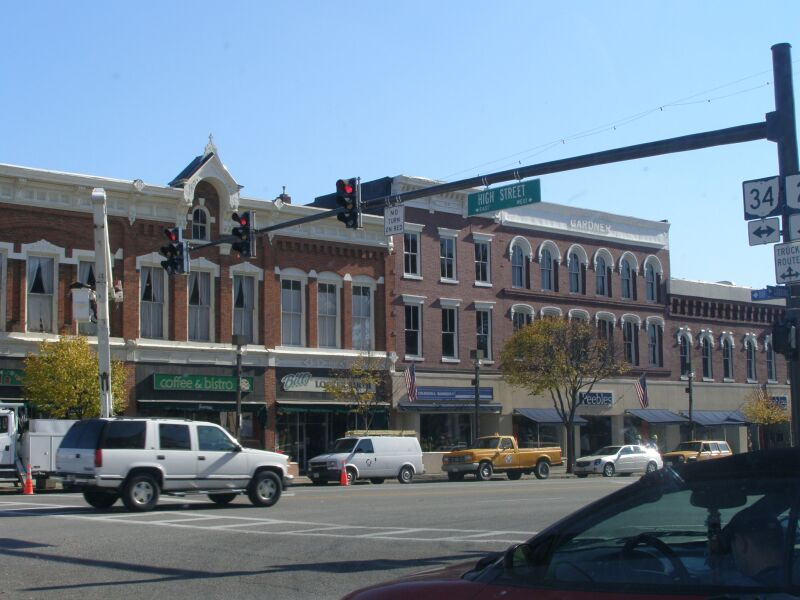 Eastside of Courthouse Square, Bryan, Ohio